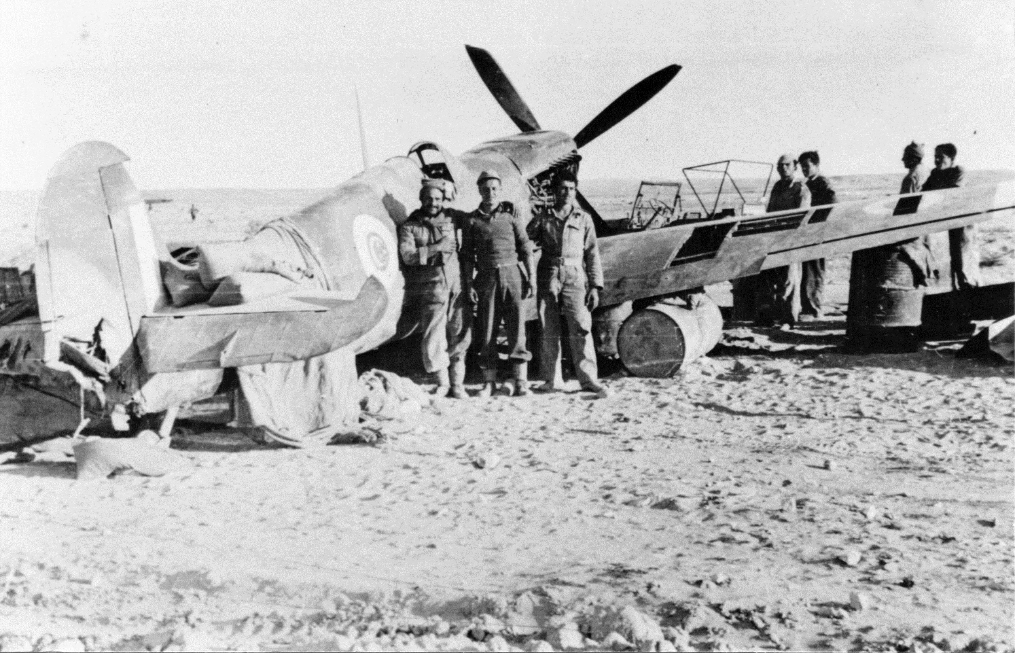 Armor battalion 82, a division of the Negev, in to the airport to El Arish, behind moves battalion - the ninth British aircraft shot down by our forces.